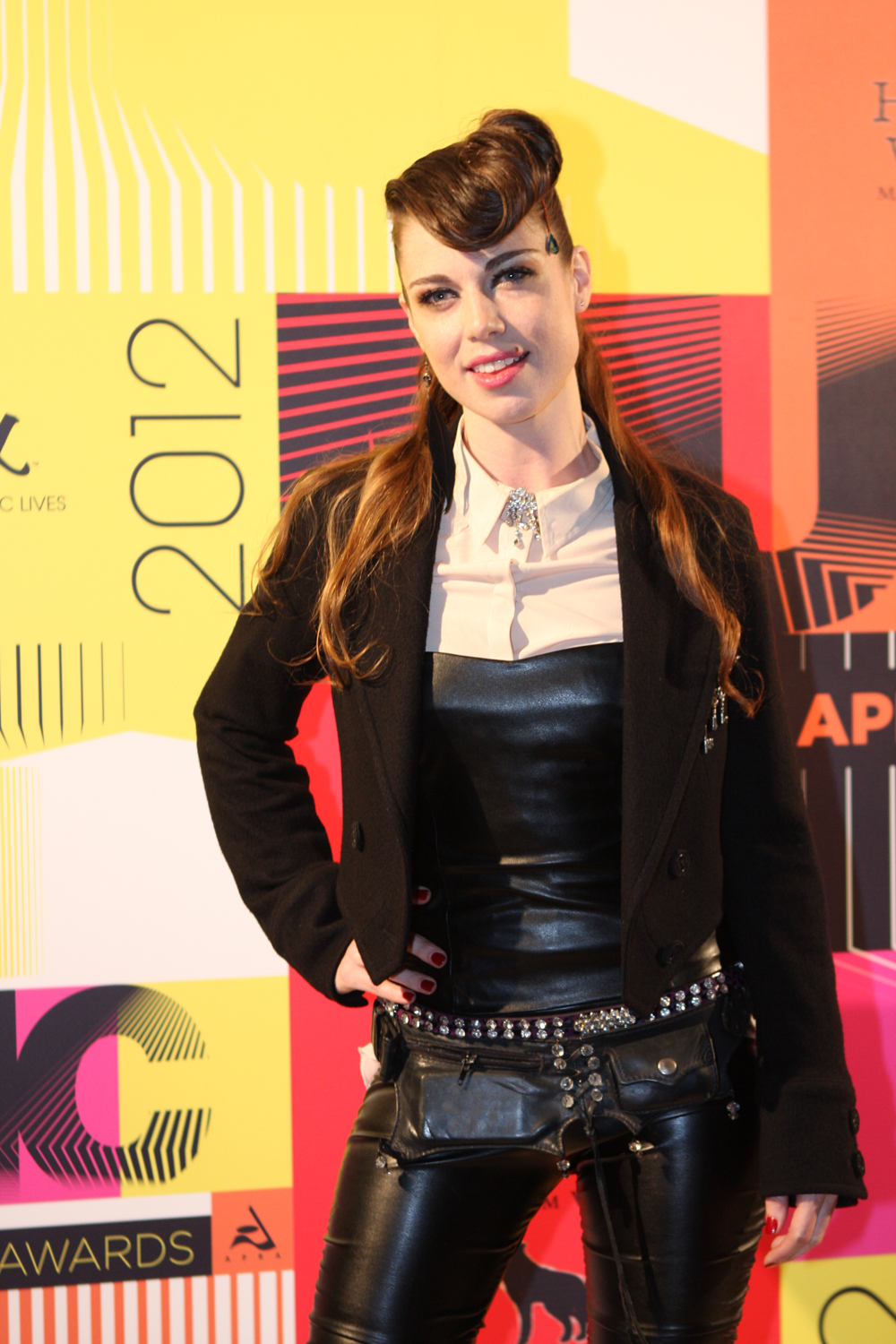 Blue MC (Marisa Lock) arrives at the APRA Music Awards of 2012 at the Sydney Convention & Exhibition Centre on May 28, 2012 in Sydney, Australia